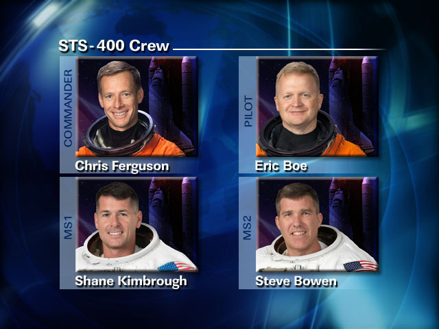 New STS-400 Crew